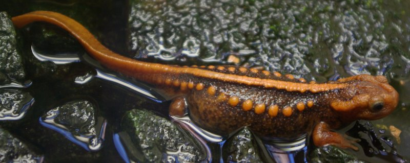 Emperor Newt (Tylototriton shanjing), National Zoo, Washington DC